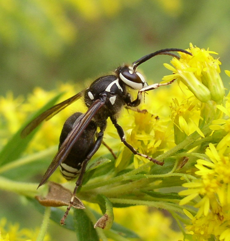 Bald faced hornet, Dolichovespula maculata, male, on goldenrod. Peace Valley Nature Center, Bucks County, Pennsylvania, USA.